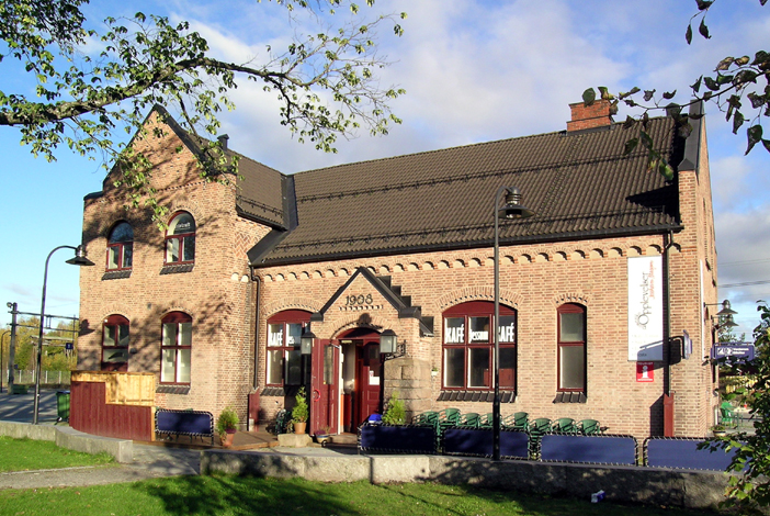 Jessheim Railway station, Ullensaker, Norway. Protected by law 1996.